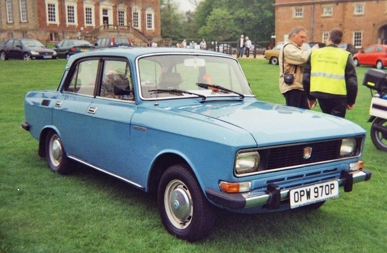 Moskvitch 1500,(Country of origin: USSR.) at the Wartburg/Trabant/IFA Club UK Rally 2006 in Stanford Hall. Possibly, this car was one of the many imported into the UK by Satra Motors Car Importation and Preparation Centre, Carnaby Industrial Estate, Bridlington, North Humberside. Note from current owner of vehicle (Jan 2020yr): In fact this car was privately imported from the former DDR. Its original colour was green. Photo by Asterion talk to me